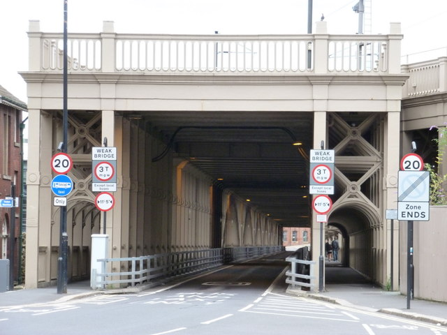 Newcastle upon Tyne: roadway over High Level Bridge